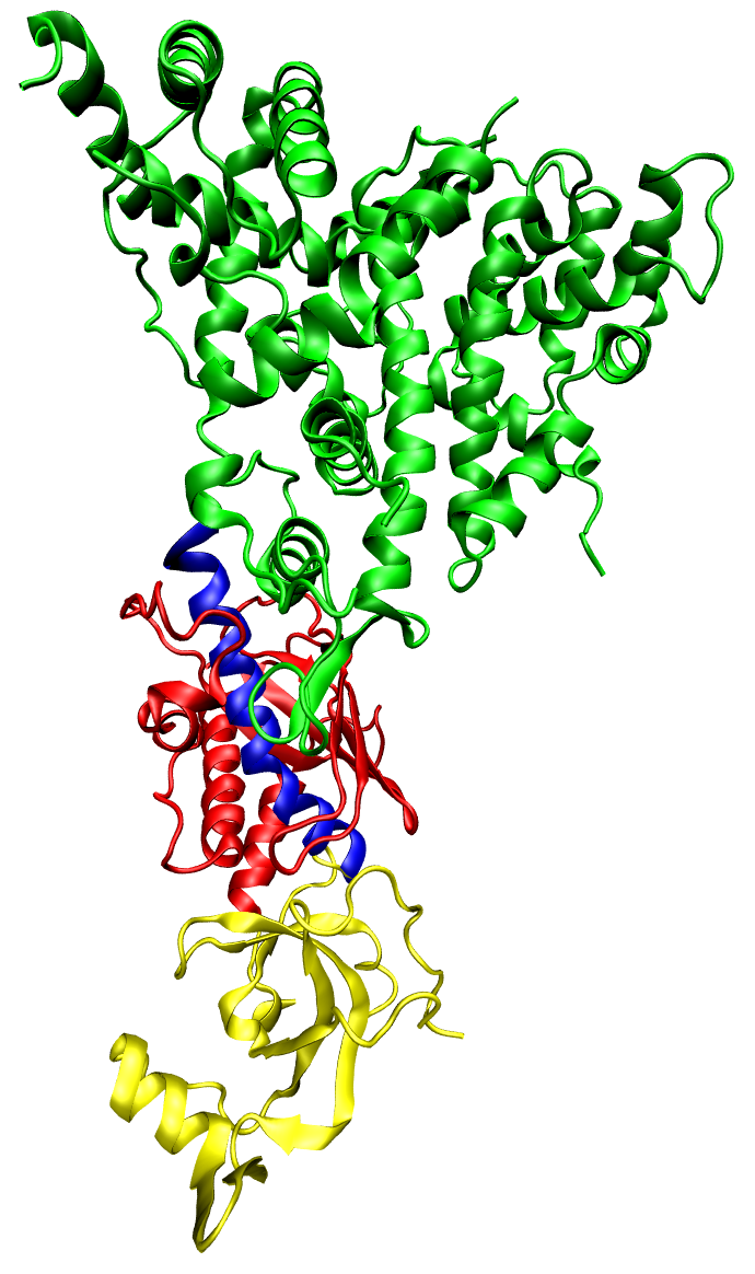 One molecule of the Dicer-homolog protein from Giardia intestinalis, colored by domain (PAZ domain yellow, platform domain red, connector helix blue, RNase and bridge domains green). Dicer is an RNase that cleaves long double-stranded RNA molecules into short interfering RNAs (siRNAs) as a first step in the RNA interference response, and also initiates the formation of the RNA-induced silencing complex (RISC).